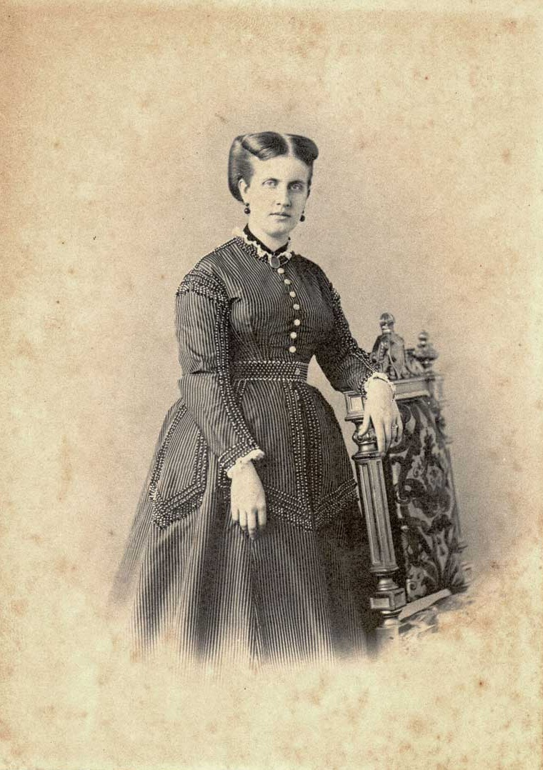 Princess Leopoldina, daughter of Emperor Pedro II of Brazil